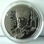 Azərbaycan Milli Mətbuatının 135 illiyinə həsr olunmuş gümüş sikkə